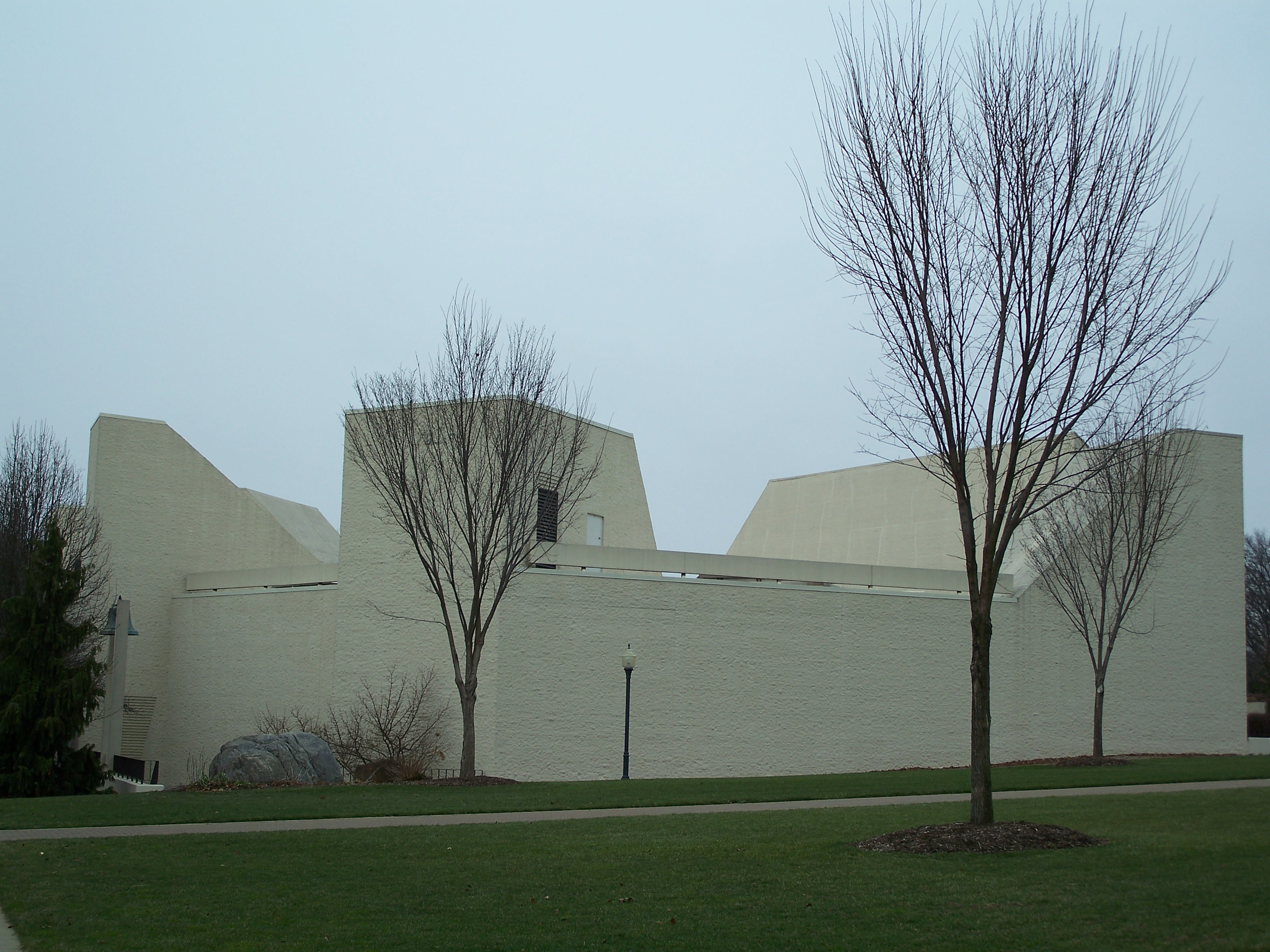 Image of McGaw Chapel on The College of Wooster campus. Building design by architect Victor Christ-Janer.